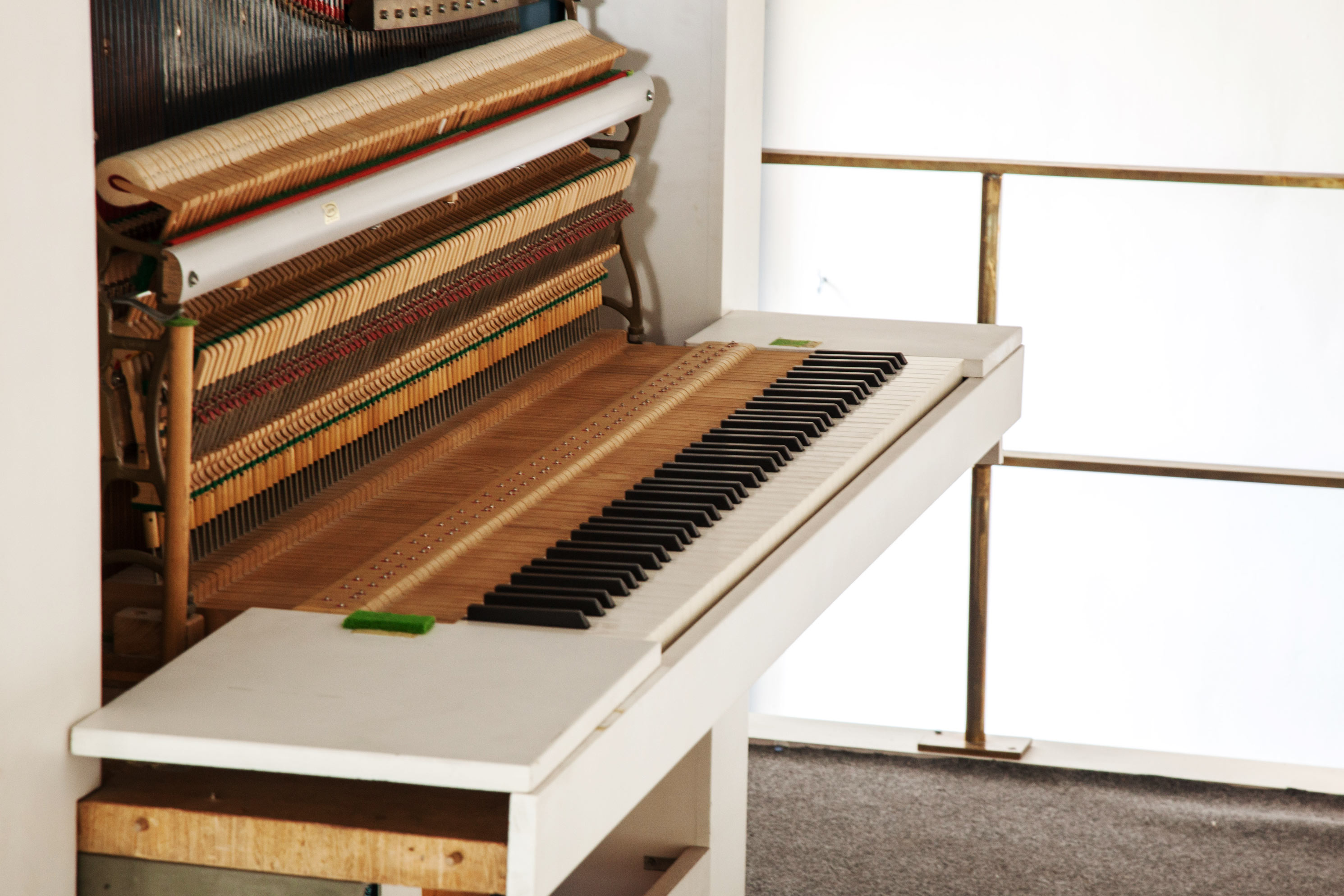 David Klavins' vertical piano "Modell 370", built in 1987 and known as the largest piano in the world. The lowest strings are longer than 3 meters. In 2012 a Berlin music software company released a digital version with samples of the original Modell 370 and called it The Giant. Here a closeup photo of the keyboard on the top floor.